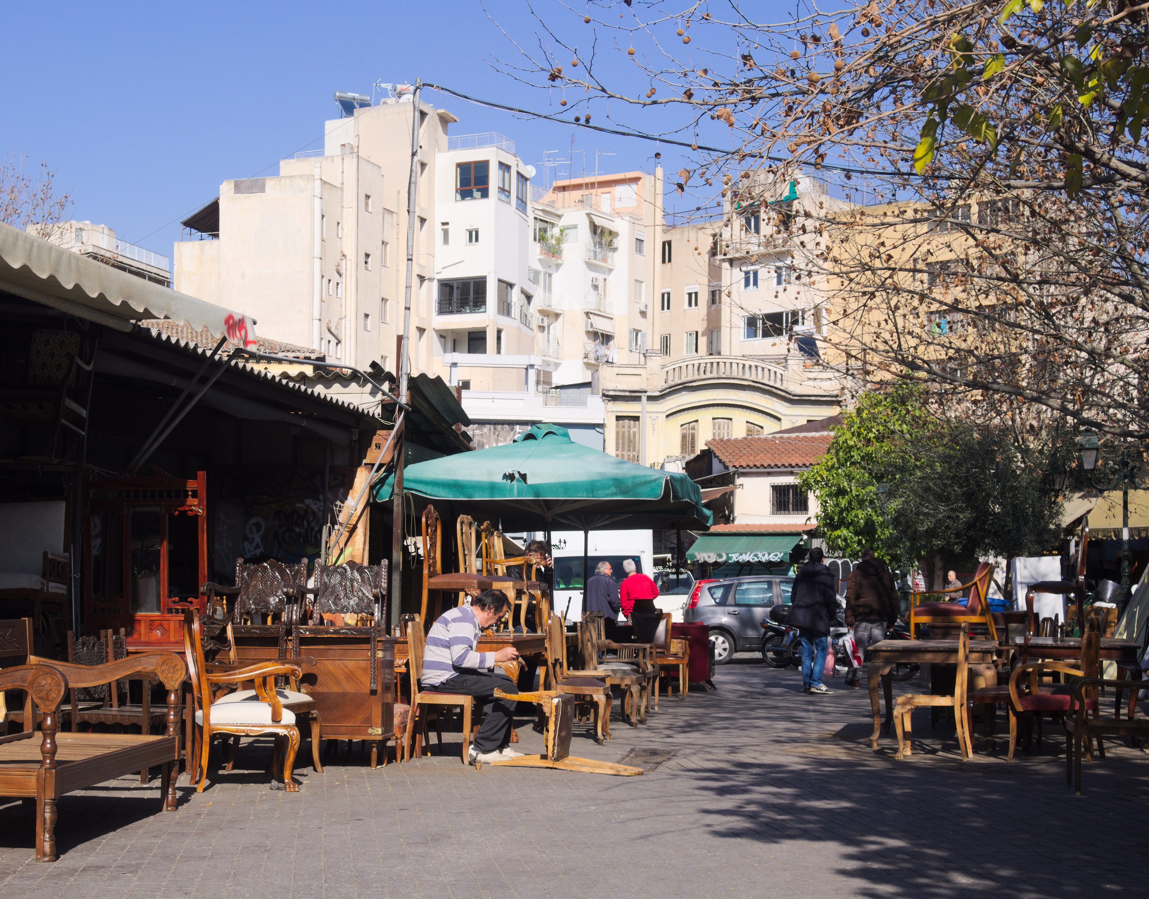 Avisinias square, Athens